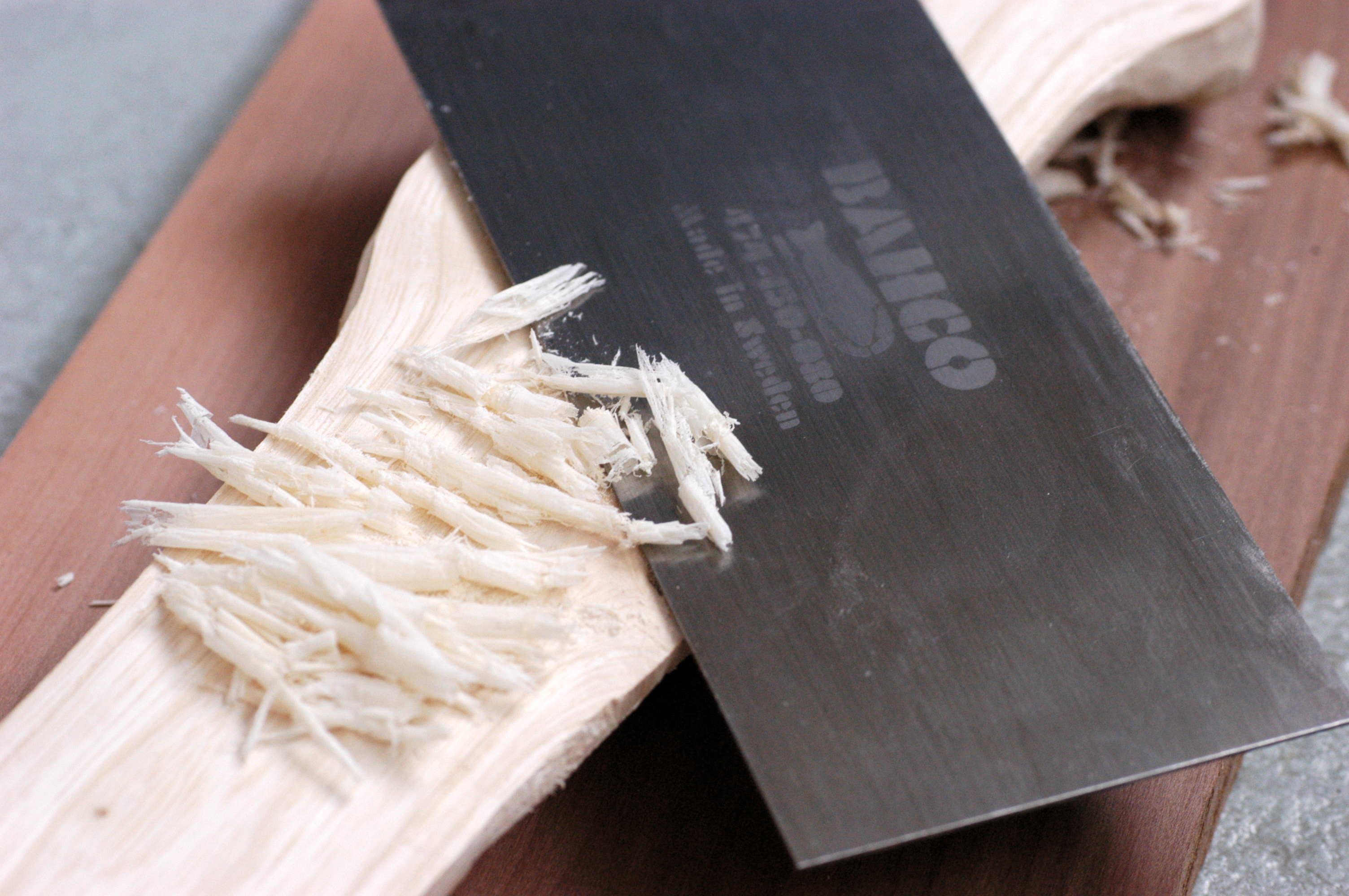 Card scraper with strands